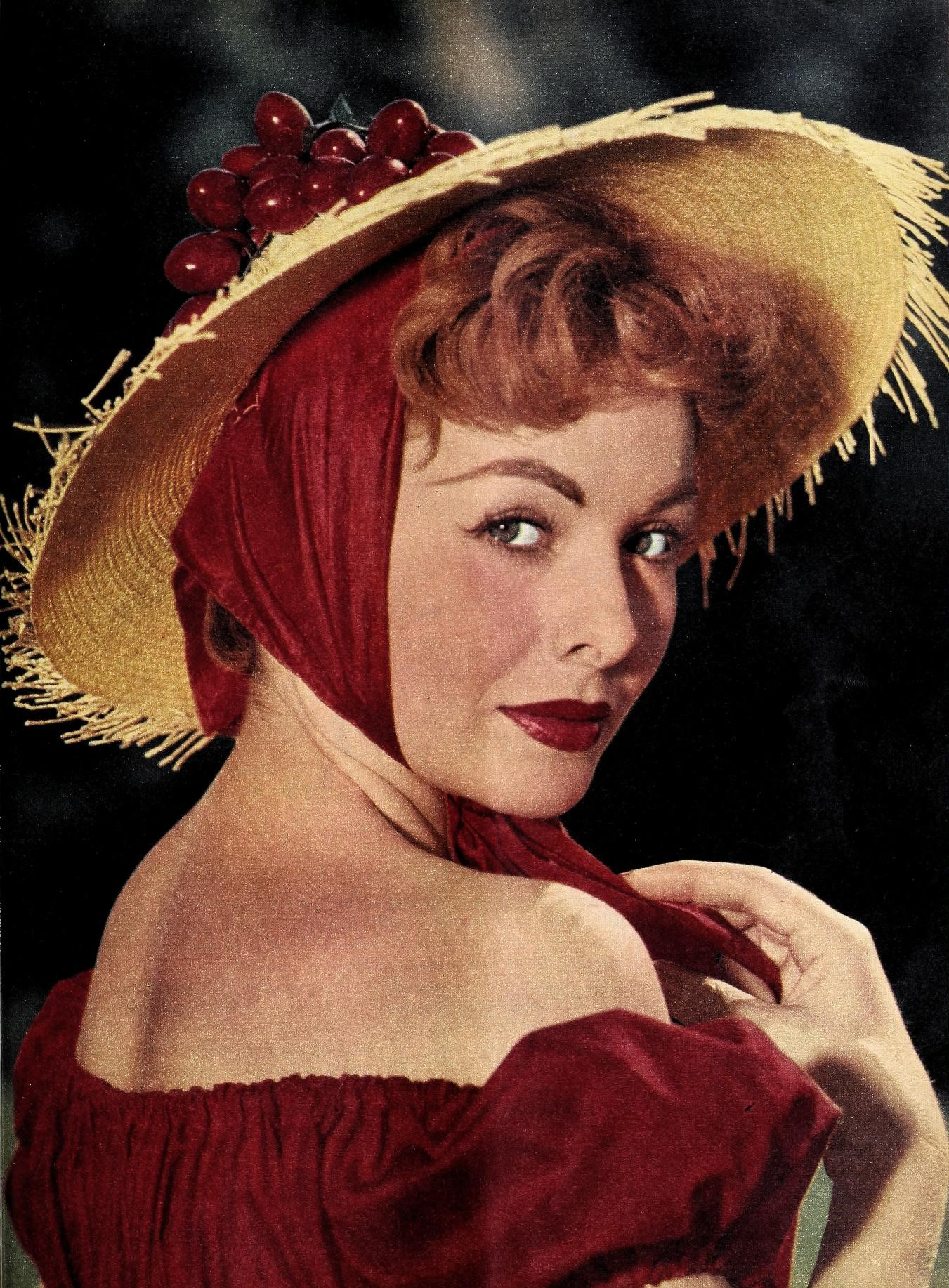 Jeanne Crain by Phil Stern, 1954